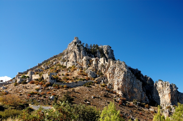 St. Hilarion, Kyrenia, Northern Cyprus.